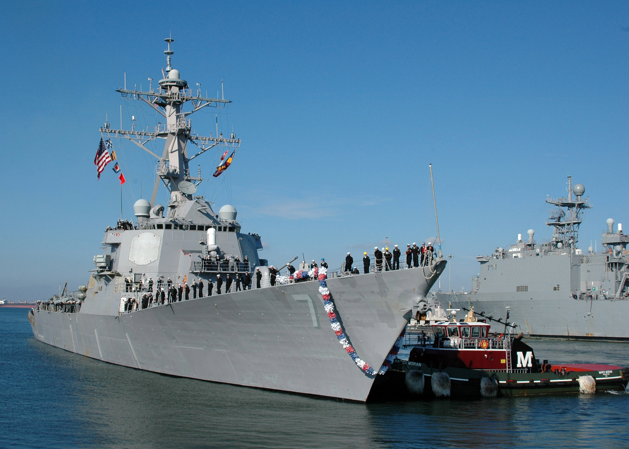 Norfolk, Va. (Nov. 6, 20006) – Almost 300 crew members aboard the guided-missile destroyer USS Ross (DDG 71) returned to homeport at Naval Station Norfolk. The Ross returned after a six-month deployment in support of Operation Active Endeavour (OAE) in the Mediterranean Sea as part of Standing NATO Maritime Group 2 (SNMG-2). While on deployment Ross worked with more than sixty NATO and non-NATO ships from Israel and Russia and submarines and aircraft from England, Greece, Italy, Turkey and the United States. The deployment was designed to be flexible and provided presence and strike power to support joint and allied forces afloat and ashore. U.S. Navy photo by Mass Communication Specialist 2nd Class Joshua L. Glassburn (RELEASED)